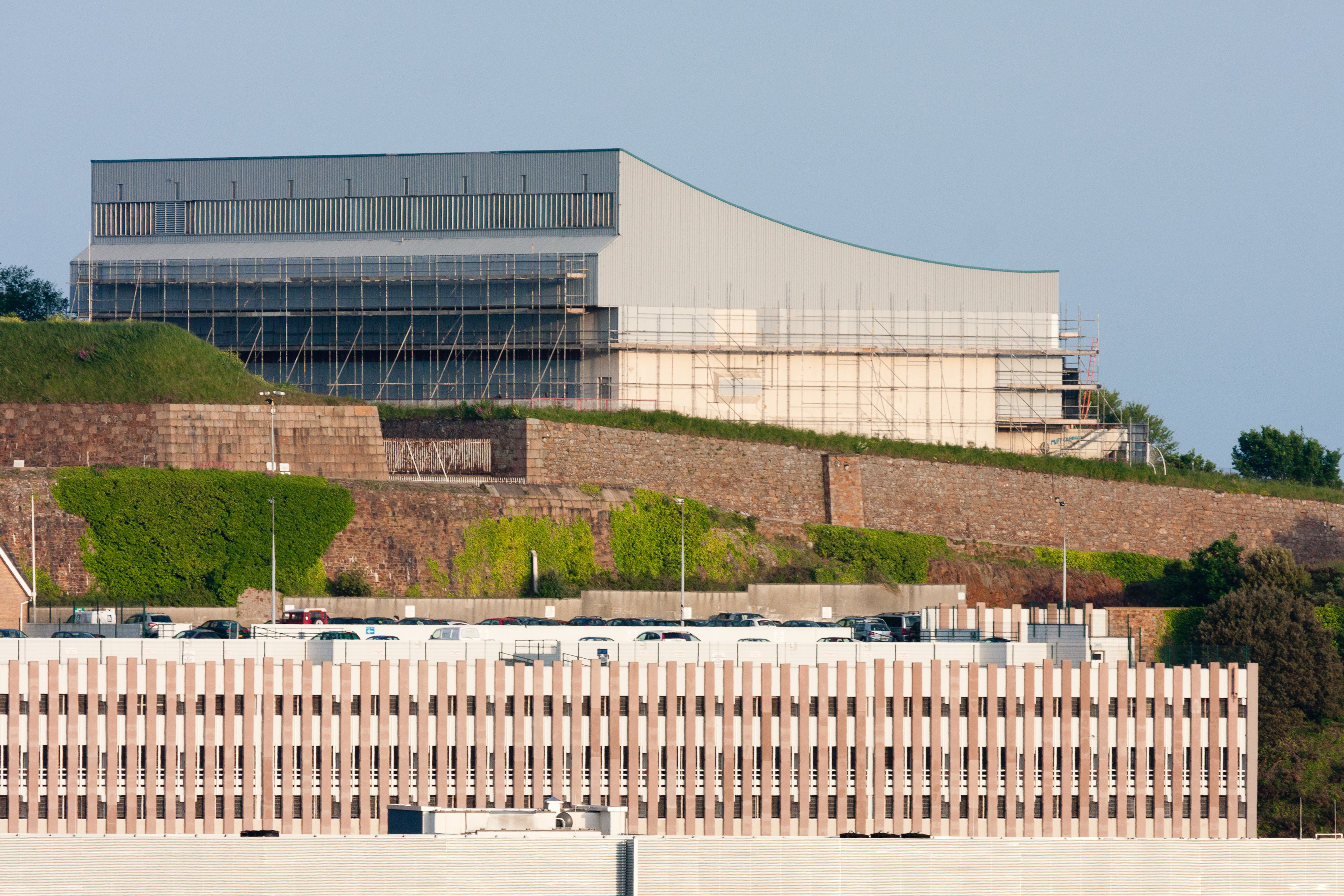 Former swimming pool at Fort Regent, Jersey.